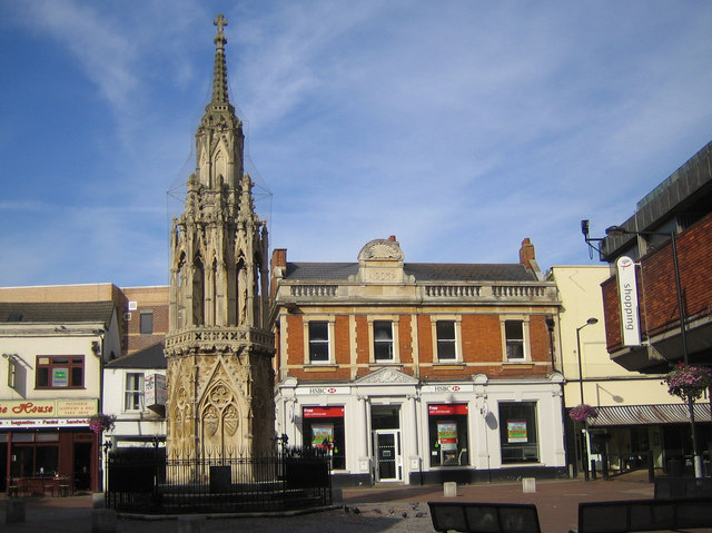 Waltham Cross: The Eleanor Cross Erected by King Edward I in 1294, the cross is one of the only three surviving of the twelve that marked the resting places of the body of his wife, Queen Eleanor, when it was taken from Harby in Nottinghamshire, where she died in December 1290, to Westminster Abbey. The cross is now in a pedestrianized zone at the junction of Eleanor Cross Road with the High Street.